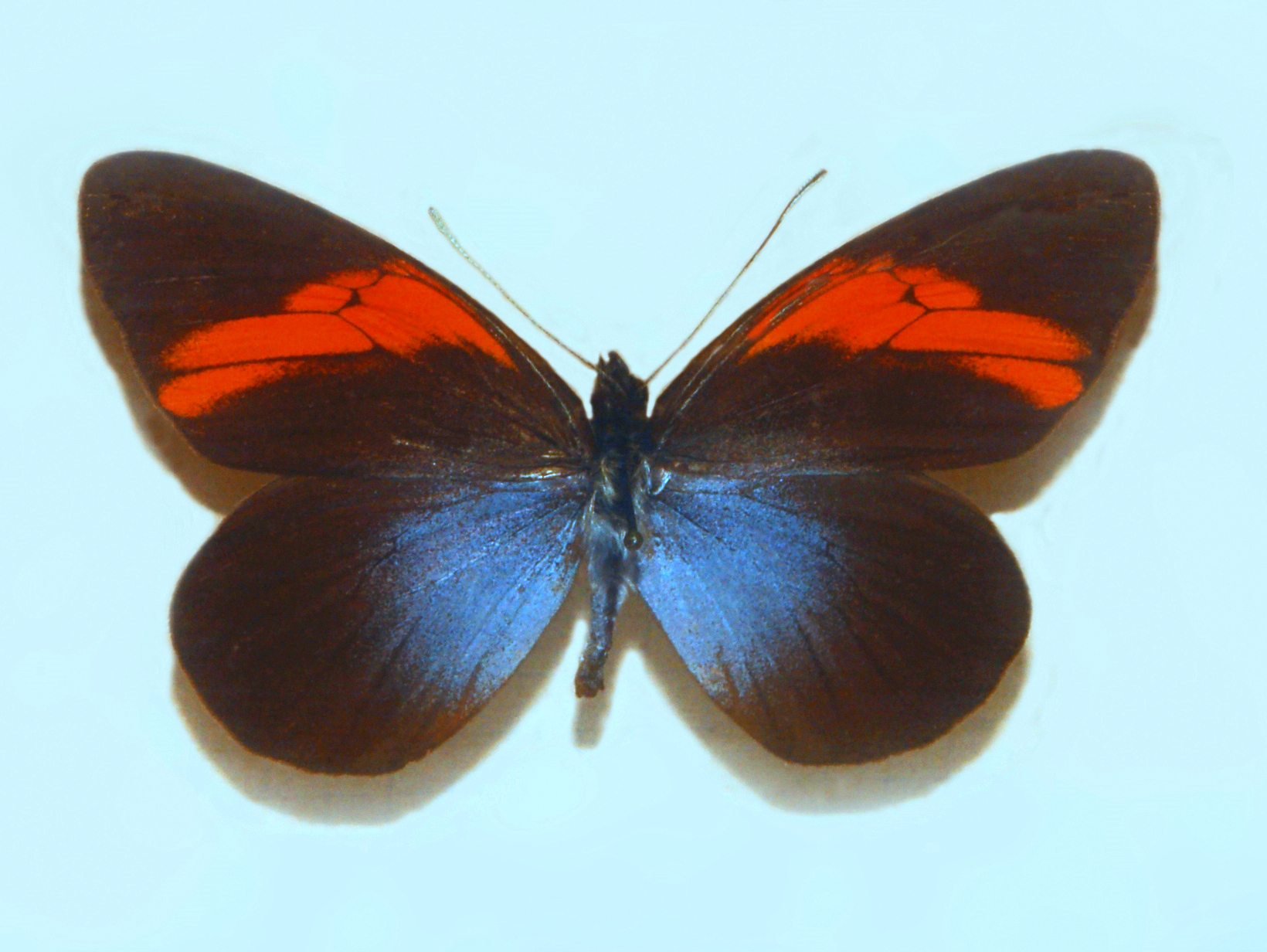 Pereute callinira from Peru. Mounted specimen